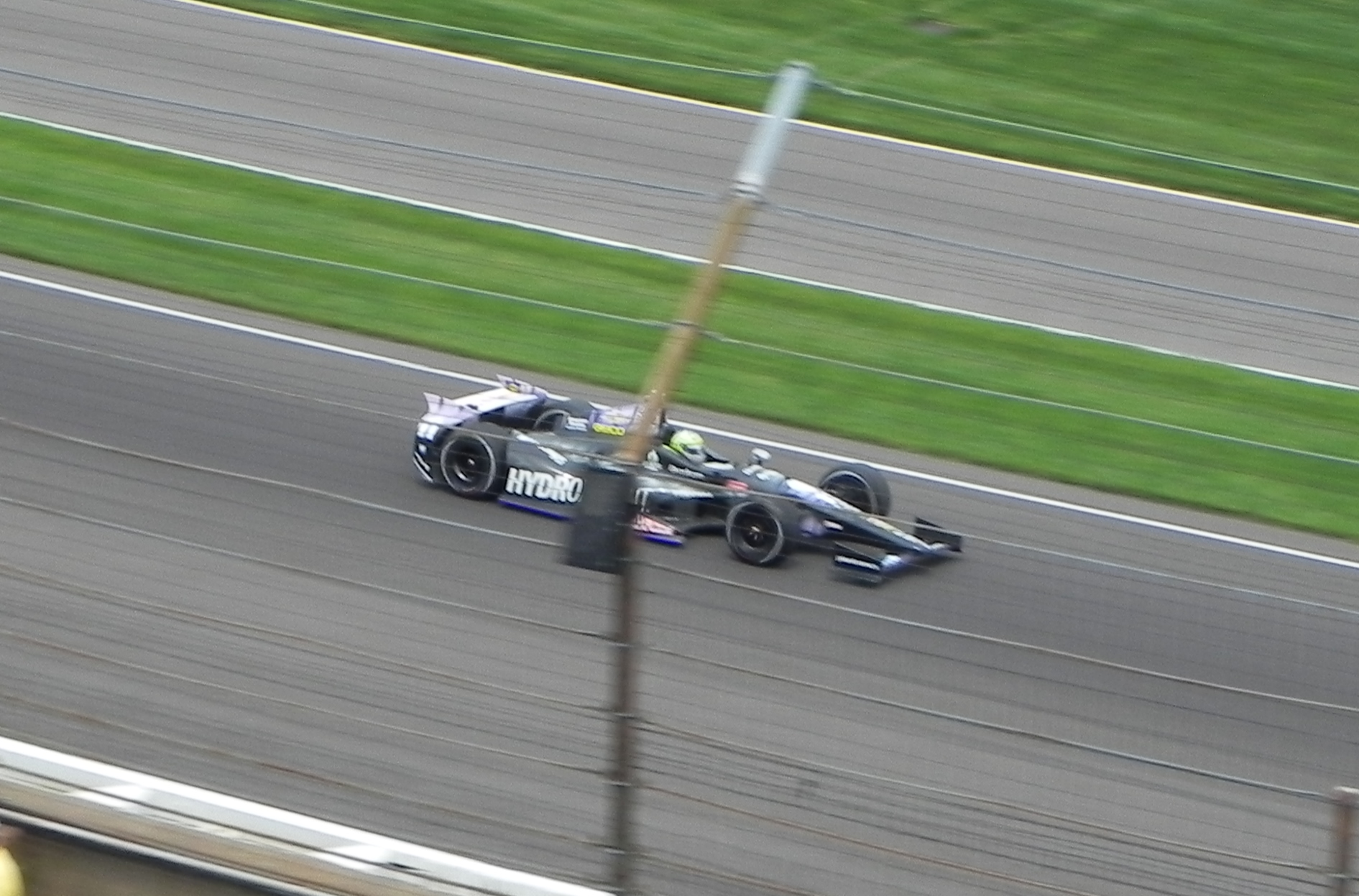 Tony Kanaan at the 2013 Indianapolis 500